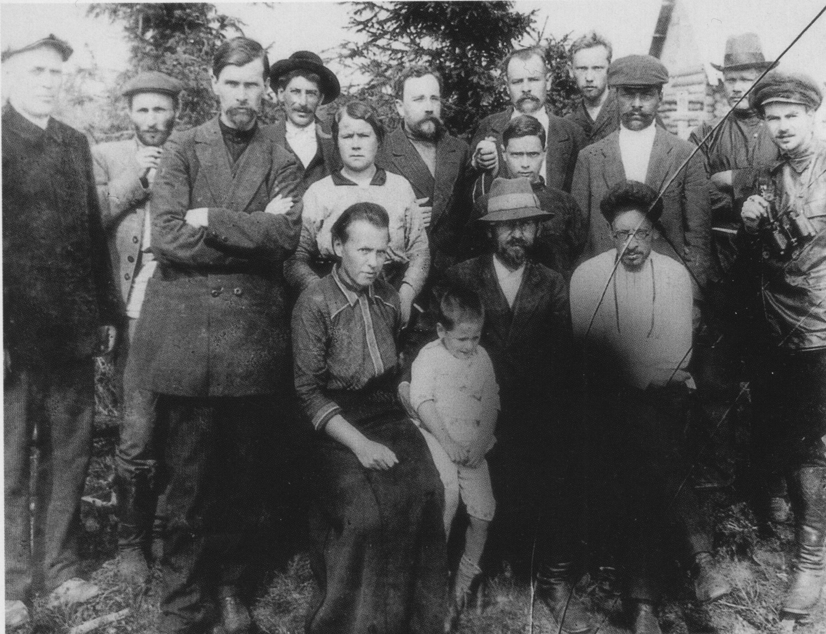 Group of exiled Bolsheviks in Siberia, gathered to discuss the trial of the Bolshevik Duma deputies, in the summer of 1915, in the village of Monastyrskoye (now Turukhansk). Among them, Suren Spandarian (second from left, standing), Josef Stalin (fourth), Lev Kamenev (sixth), Aleksei Badayev (seventh) and Jacob Sverdlov (fourth from the left, sitting).